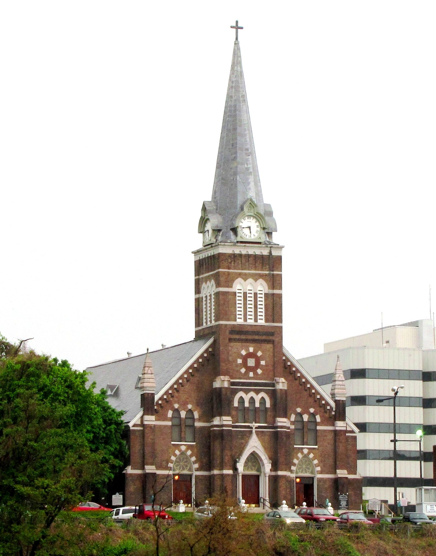 The Church of the Immaculate Conception in Knoxville, Tennessee, USA, viewed from the Gay Street Viaduct. The church was built in 1886, and was designed by architect Joseph F. Baumann.